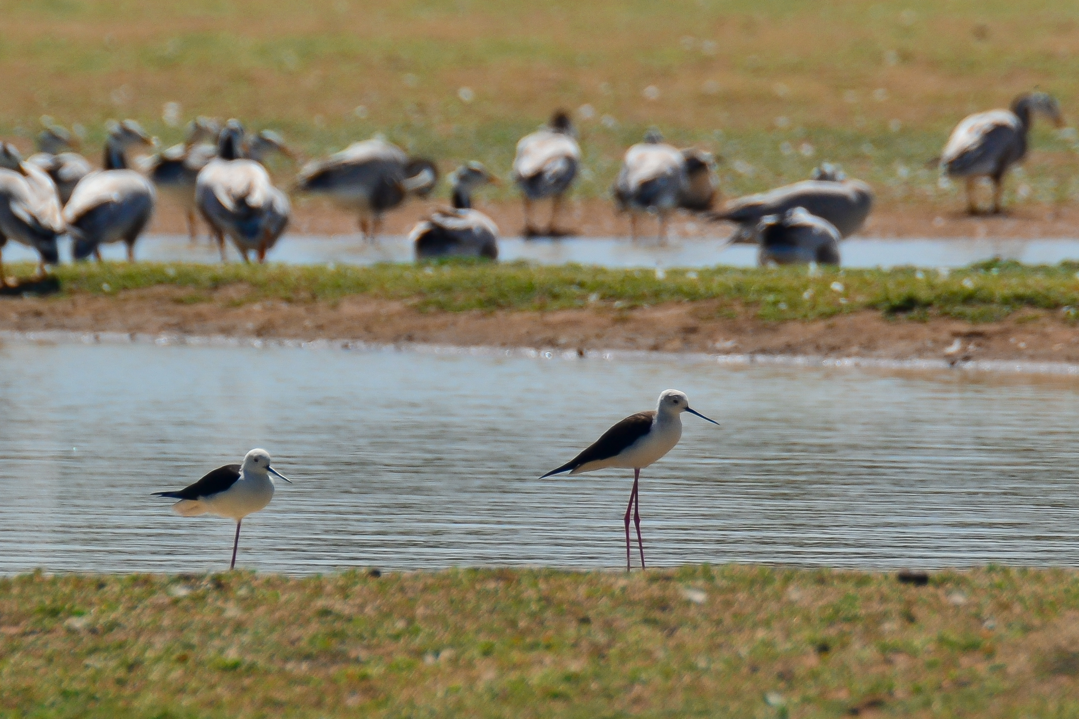 A pair of Black-winged Stilts (Himantopus himantopus) in the foreground with Bar-headed Geese in the background, at Koonthankulam Bird Sanctuary, Tirunelveli District, Tamil Nadu, India